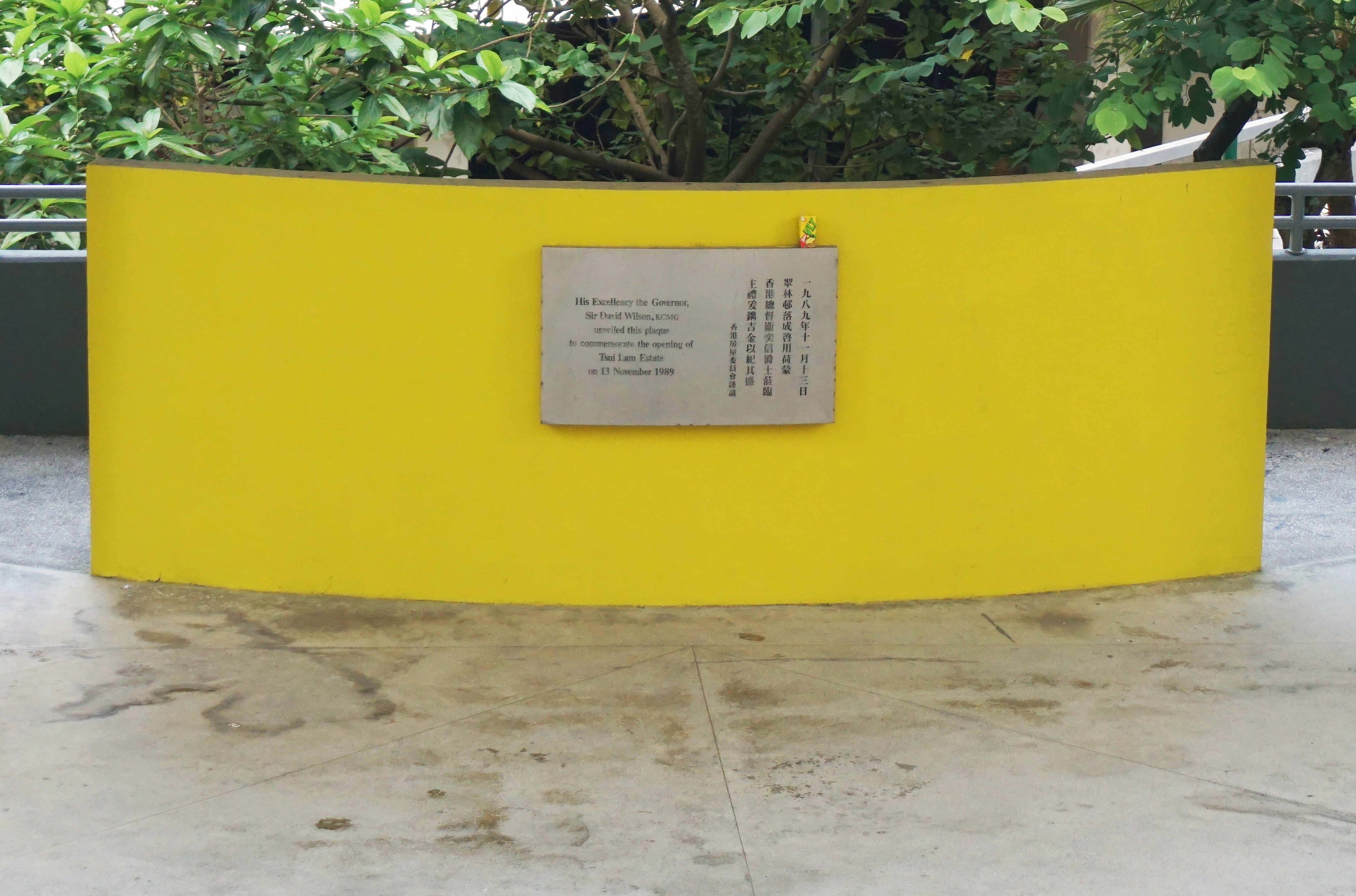 Tsui Lam Estate in Tseung Kwan O, Hong Kong.